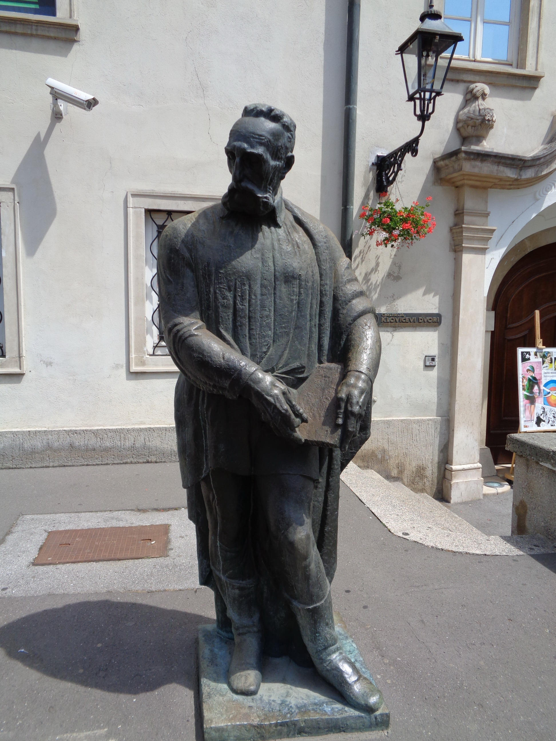 Juraj Julije Klović-Croata /George Julius Clovich/ (1498-1578), Croatian illuminator, miniaturist and painter, mostly active in Italy under the name Giulio Clovio - statue in Zagreb